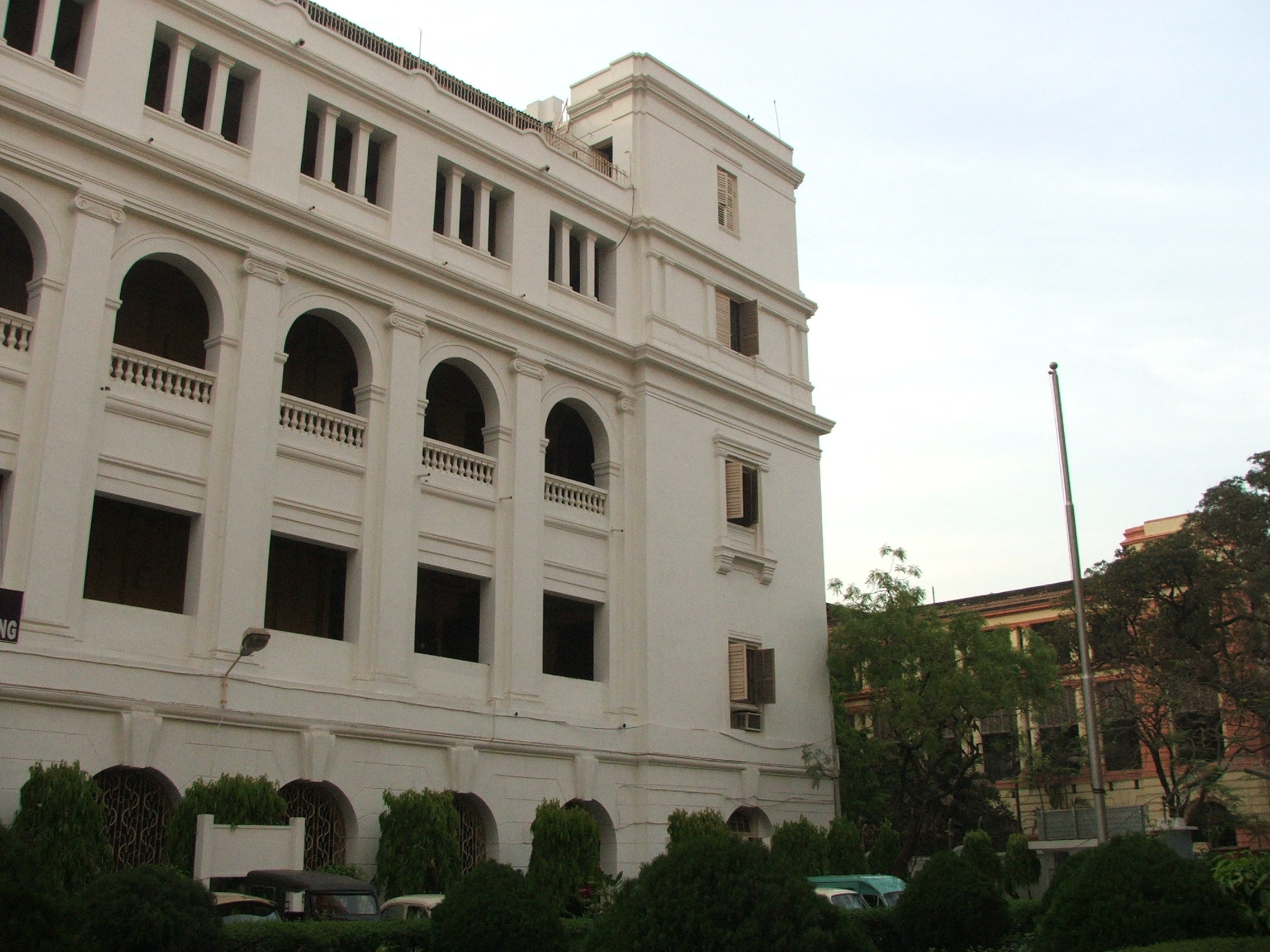 Kolkata university building in college street campus kolkata